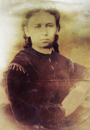 Maria N Anzimirova (1831-1912), a noblewoman, born Litke (niece of Count Fyodor Petrovich Litke), Russian writer and feminist, author of the books ("A Woman and Her Destiny," St. Petersburg, 1896, "The Causes of the Moral Physiognomy of a Woman", St. Petersburg, 1901; "The Truth about Men", Moscow, 1905), teacher of music and French.